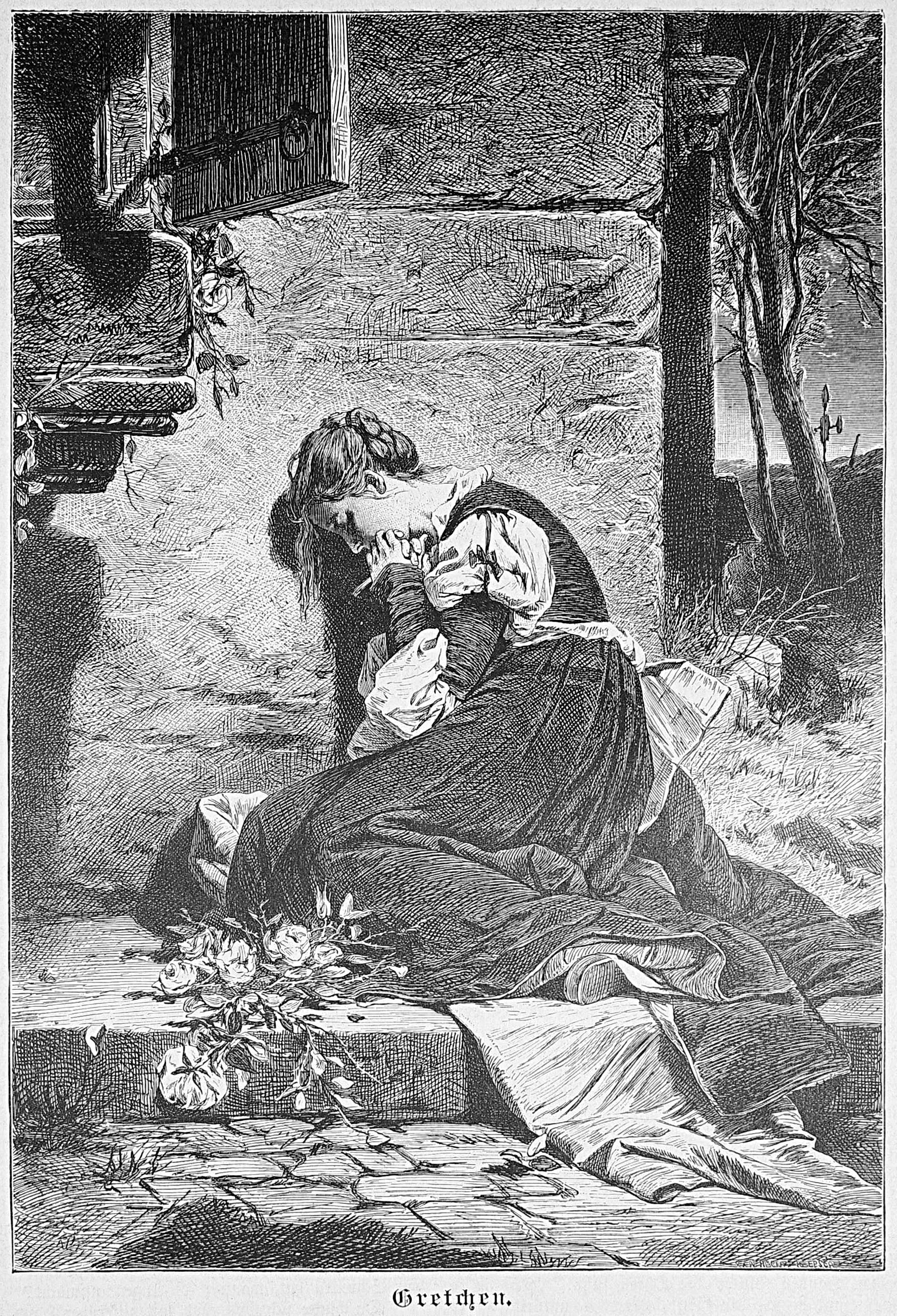 caption: "Gretchen."